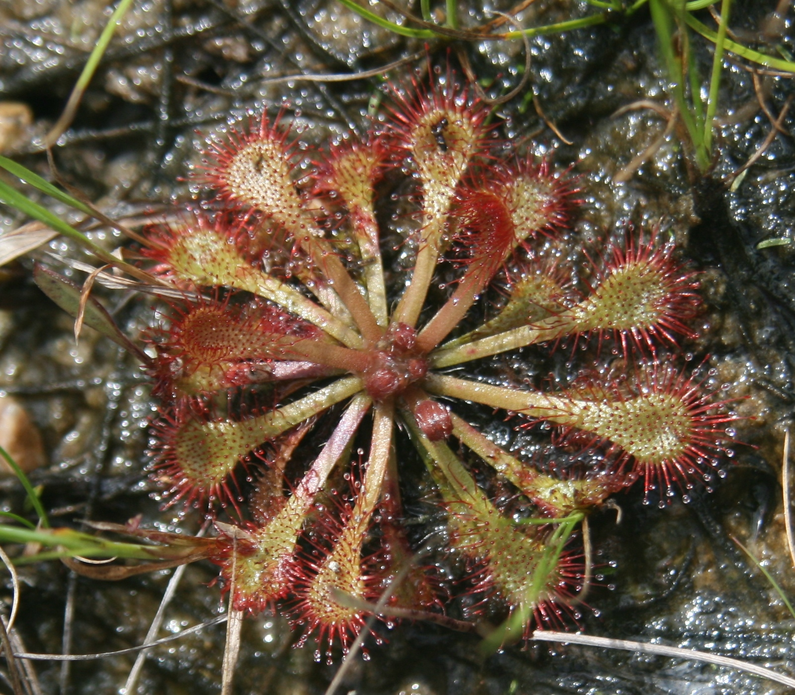 Drosera tokaiensis f1 in Imō Wetland